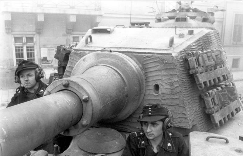 Information added by Wikimedia users.Schwere Panzer-Abteilung 503. Only Tiger II unit to go to Budapest[1]